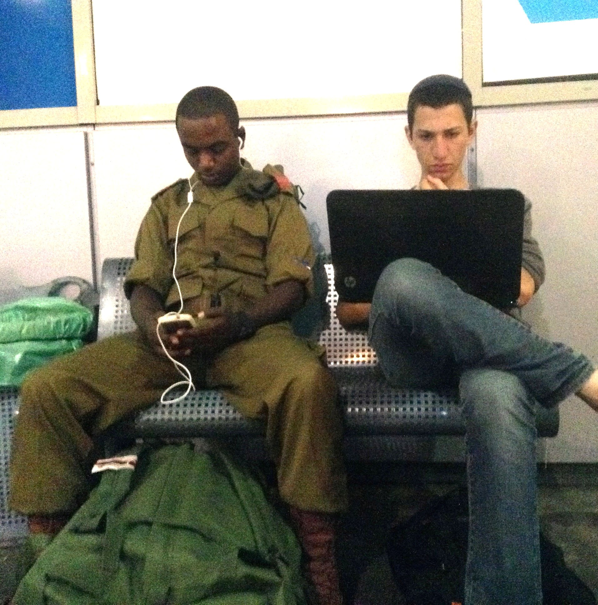 Israelis